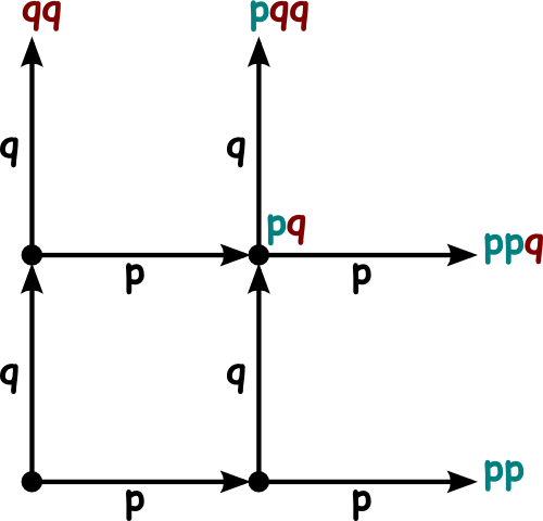 The bernoulli p-q diagram